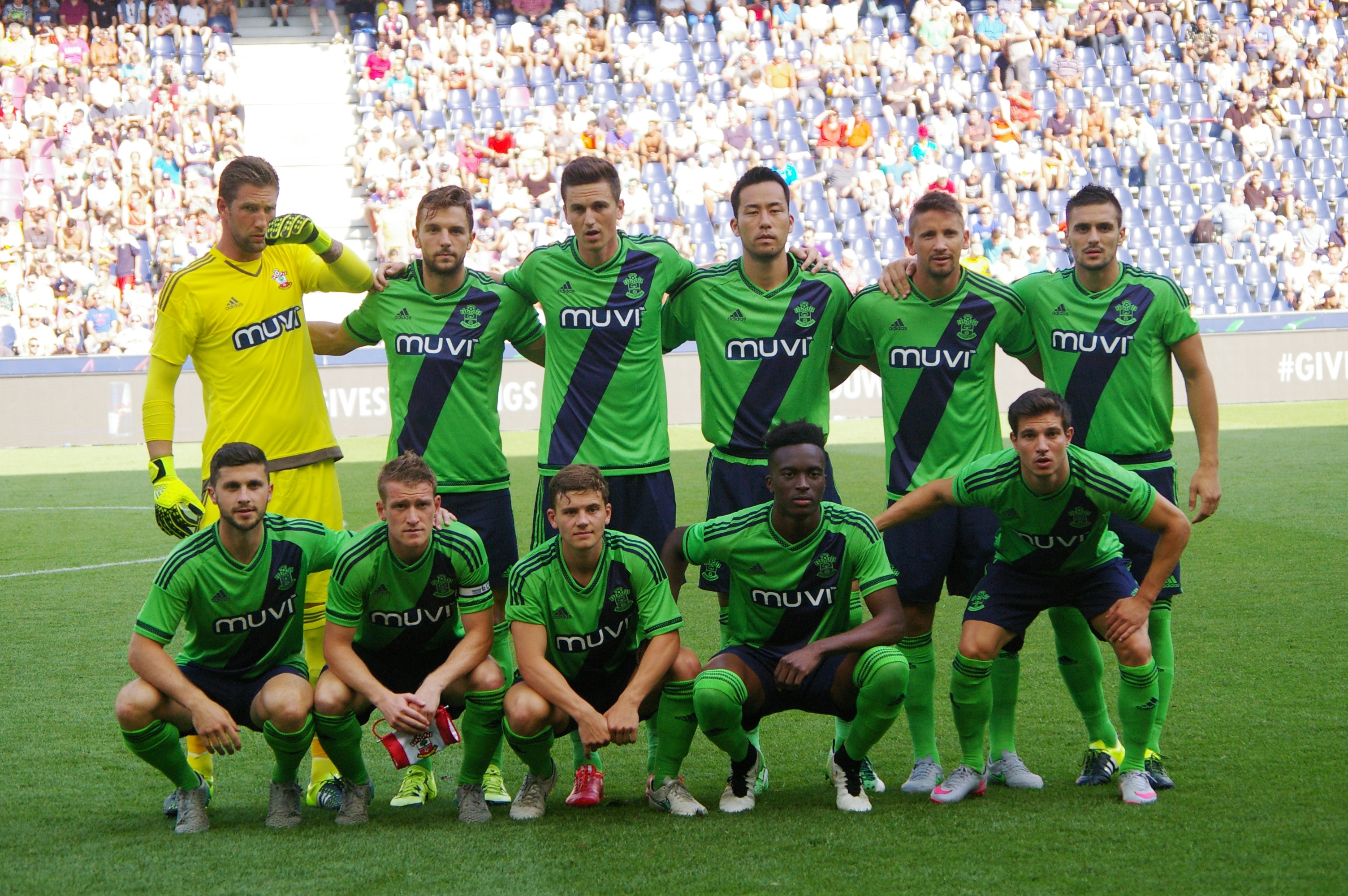 tournament with SV Werder Bremen, FC Southampton, Red Bull Salzburg and Valencia CF preseason friendly matches